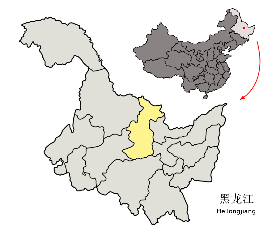 Location of Yichun Prefecture (yellow) within Heilongjiang Province of China Map drawn in november 2007 using various sources, mainly : Heilongjiang Province administrative regions GIS data: 1:1M, County level, 1990 Heilongjiang Counties map from